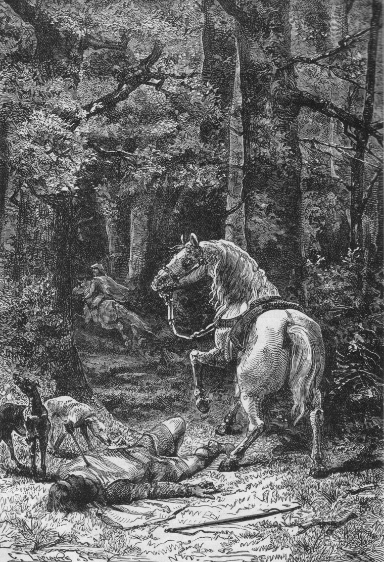 Death of William Rufus of England